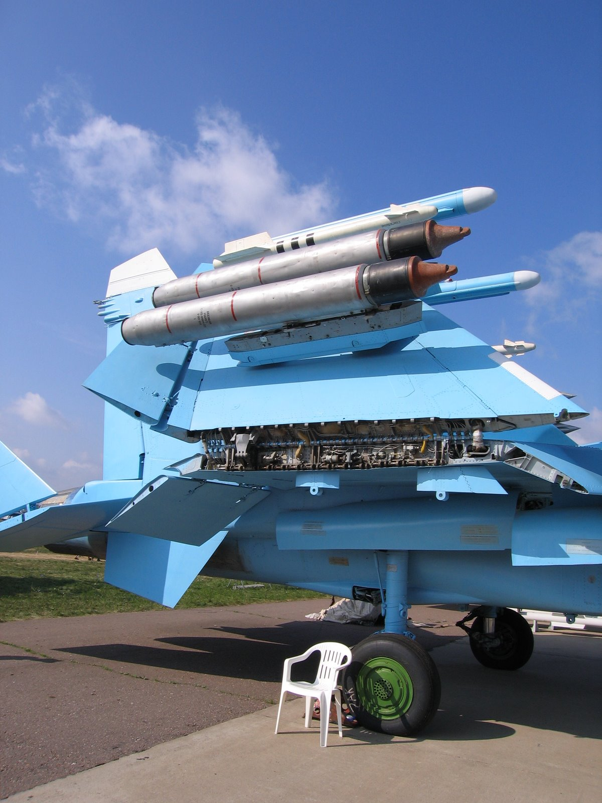 A folded wing of Sukhoi Su-33 at MAKS Airshow 2007.